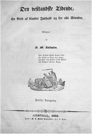 Frontpage of the first edition of Den vestlandske Tidende, 31 July 1832